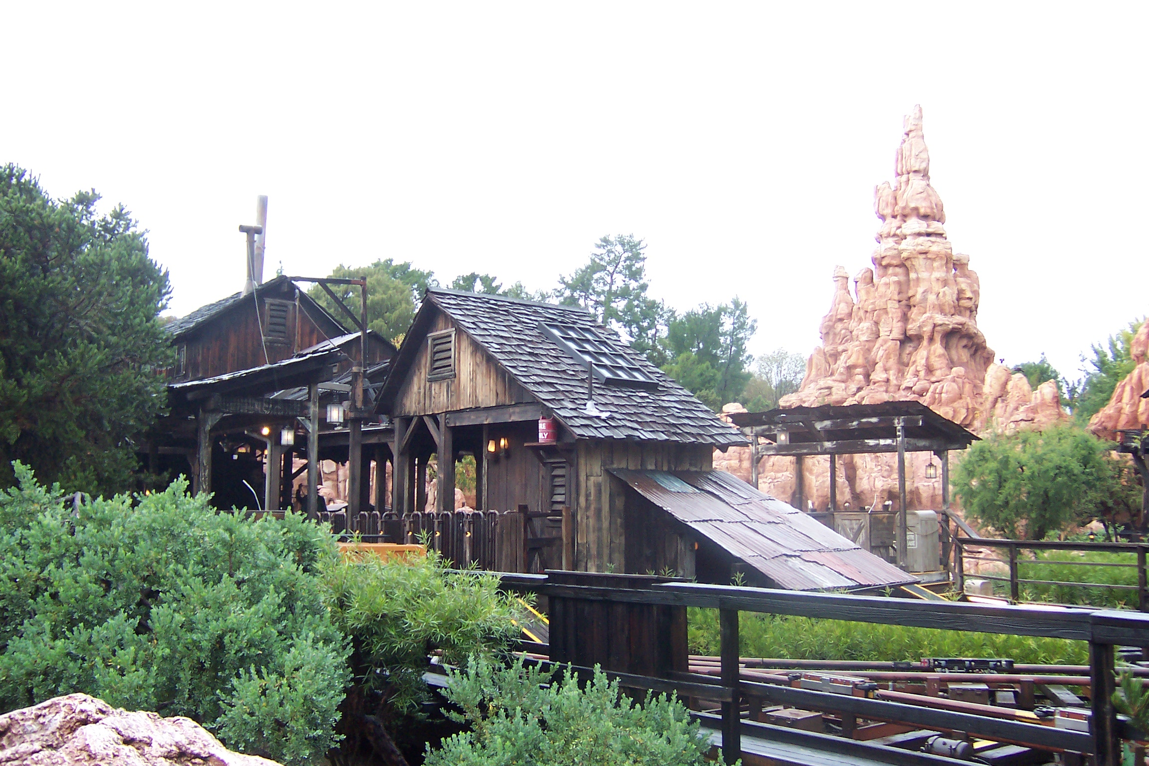 Station of Big Thunder Mountain Rail Road in Disneyland Anaheim